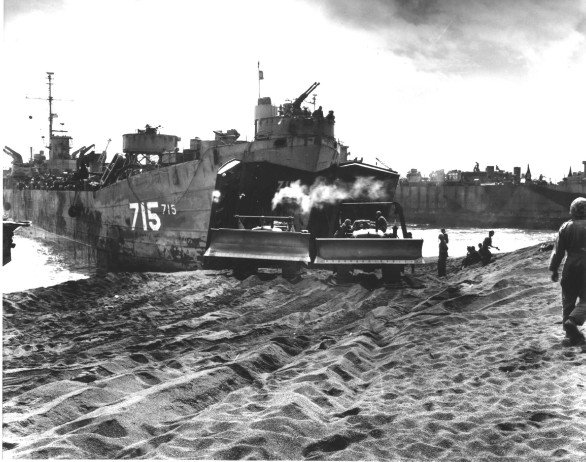 LST-715 at Iwo Jima, Green Beach, Volcano Islands, 25 February 1945 US Navy photo now in the collections of the US National Archives.